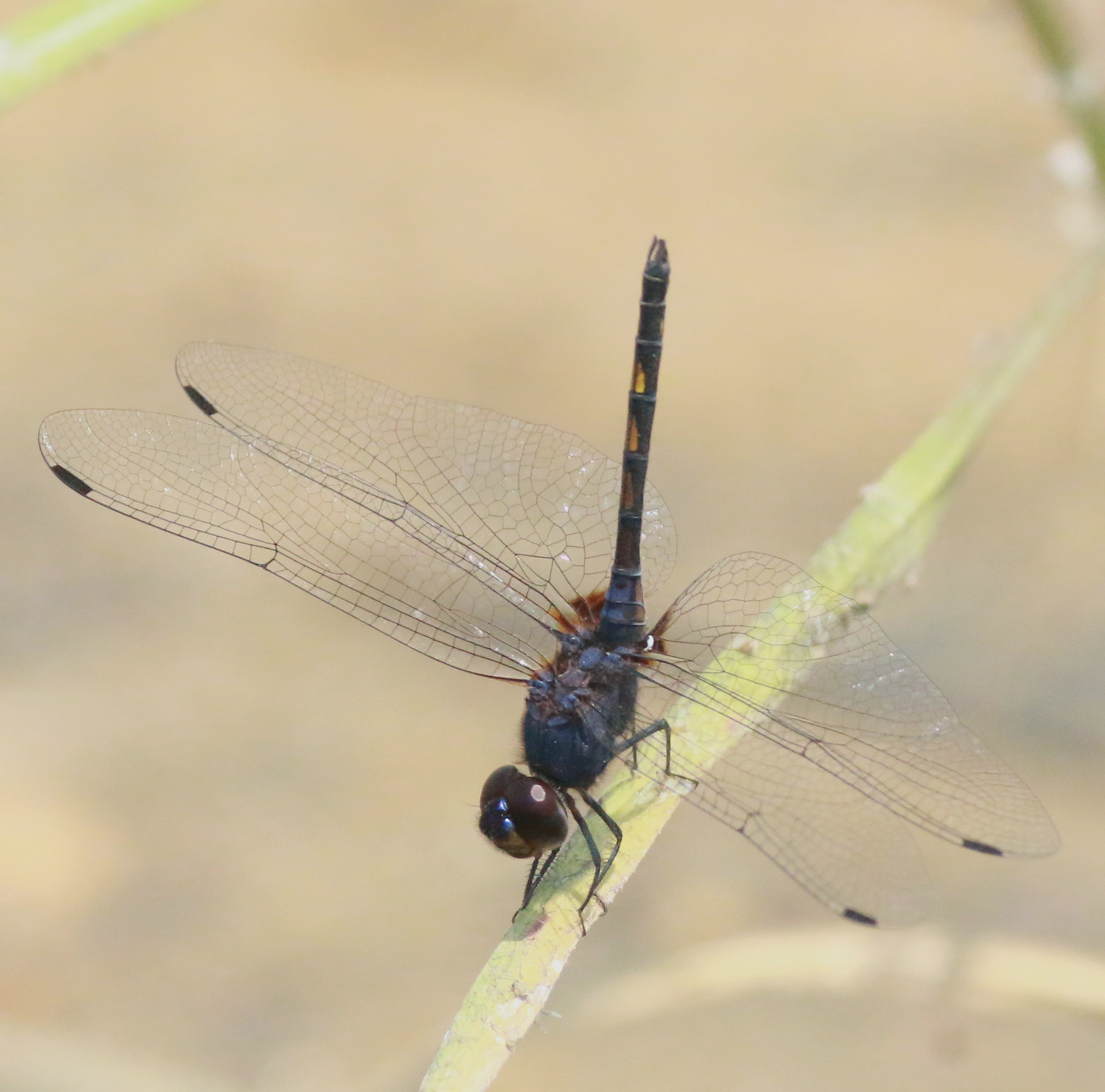 കാർത്തുമ്പി ( Black Stream glider)Trithemis festiva